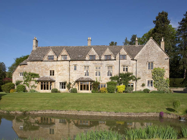 Icomb Place East Wing View